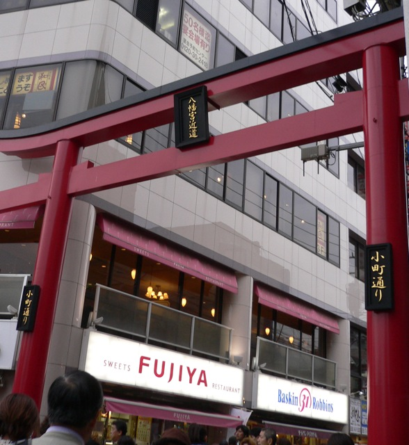 Komachi Street Entrance in Kamakura, Kanagawa, Japan.